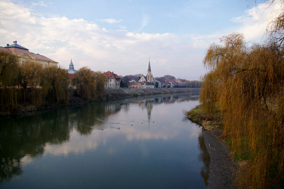 I took this photo one November afternoon while taking a walk through Lugoj.